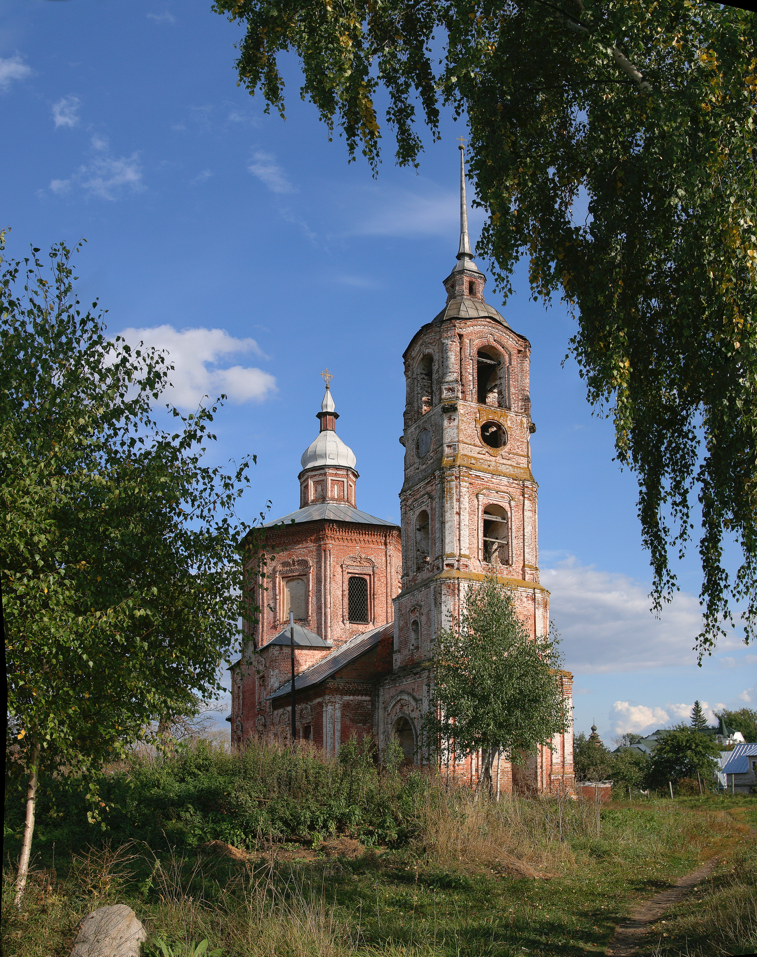 Saints Boris and Gleb Church, Suzdal, 1747